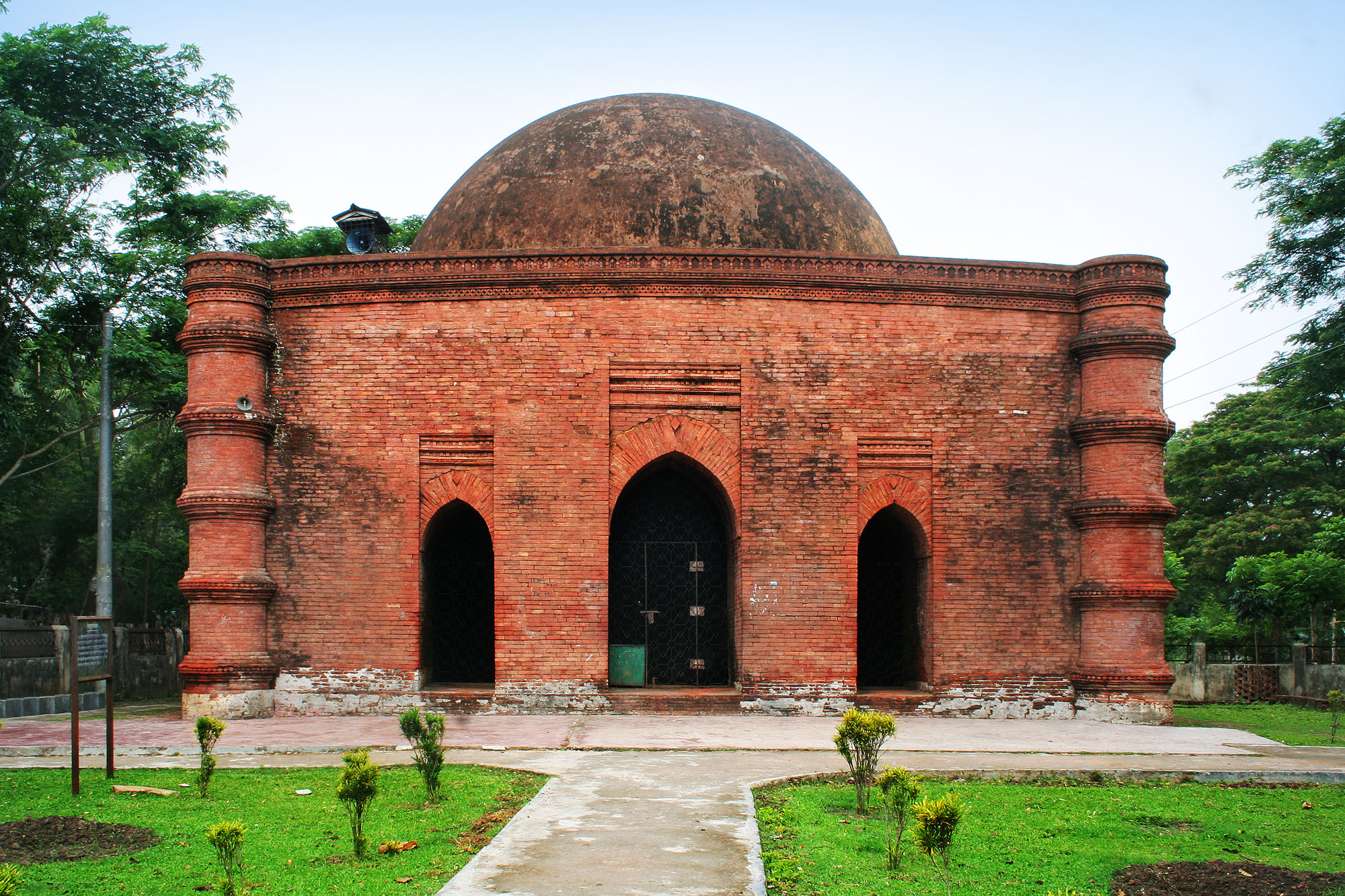 The Singair Mosque in Bagerhat. It is a single-dome mosque, just opposite from the Shait Gumbad mosque, Bangladesh.